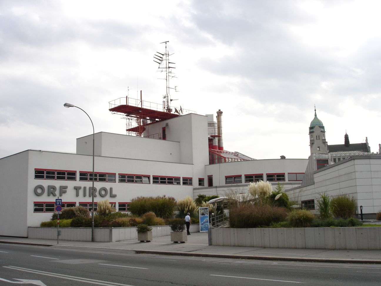 Orf Studio Innsbruck in Tyrol (Austria)